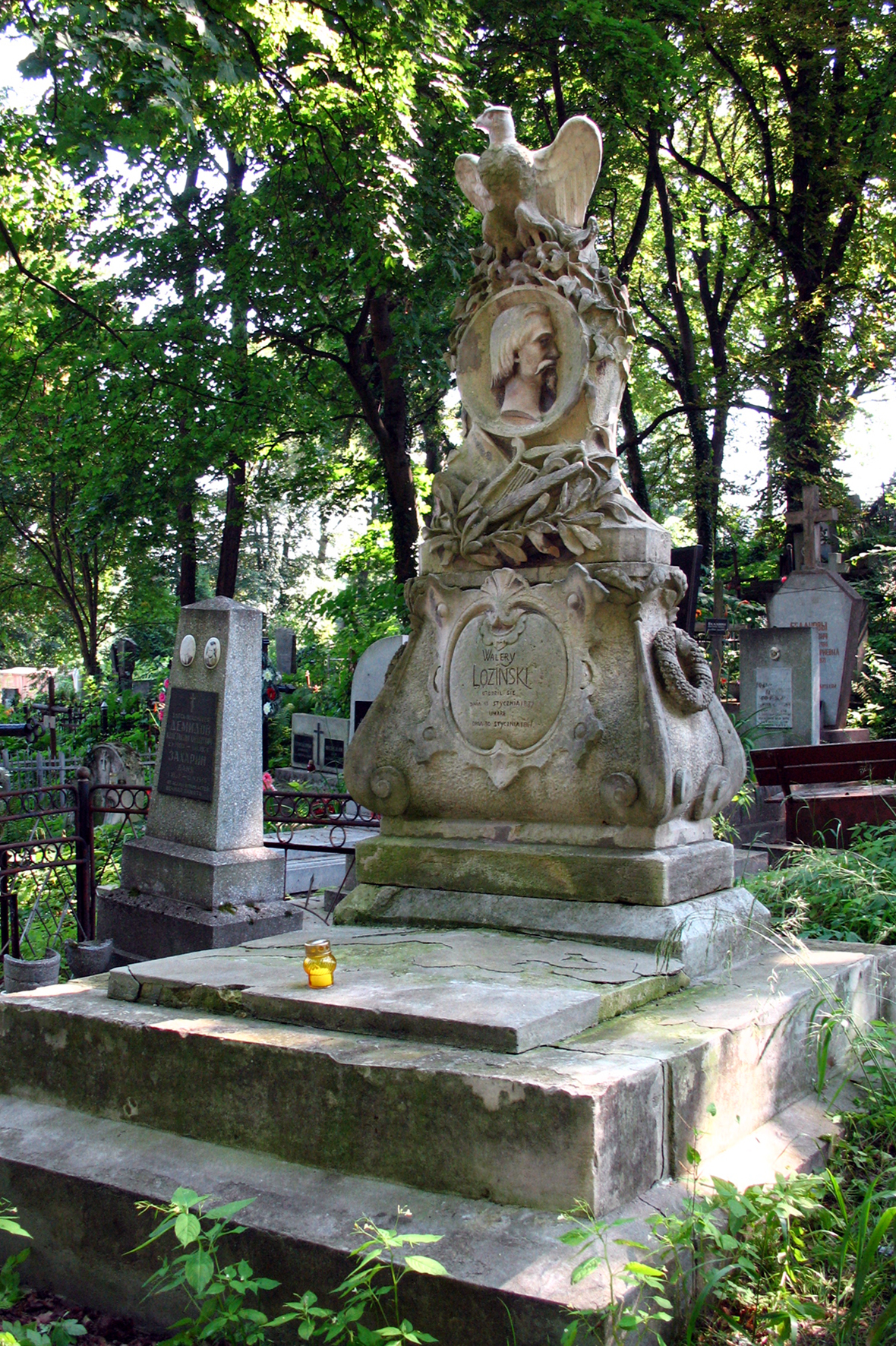 Tomb of Polish romantic writer, Walery Łoziński - Lychakiv Cemetery, Lviv, Ukraine - 2010. Abel Marie Perier